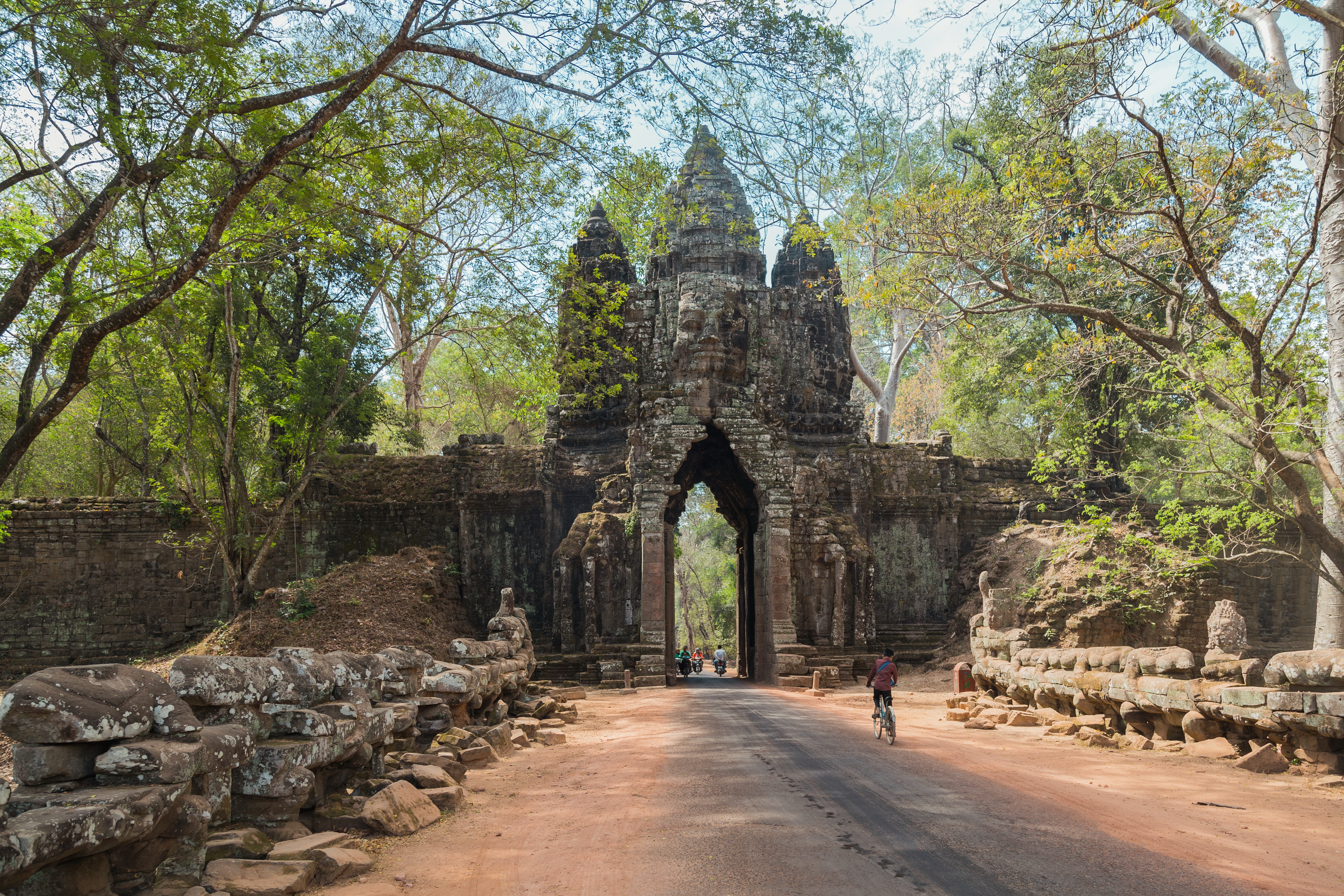 North gate. Angkor Thom, Siem Reap Province, Cambodia.